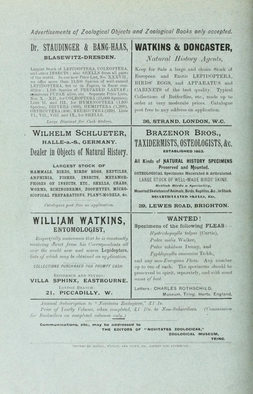 NovitatesZoologyVolume1896Adverts